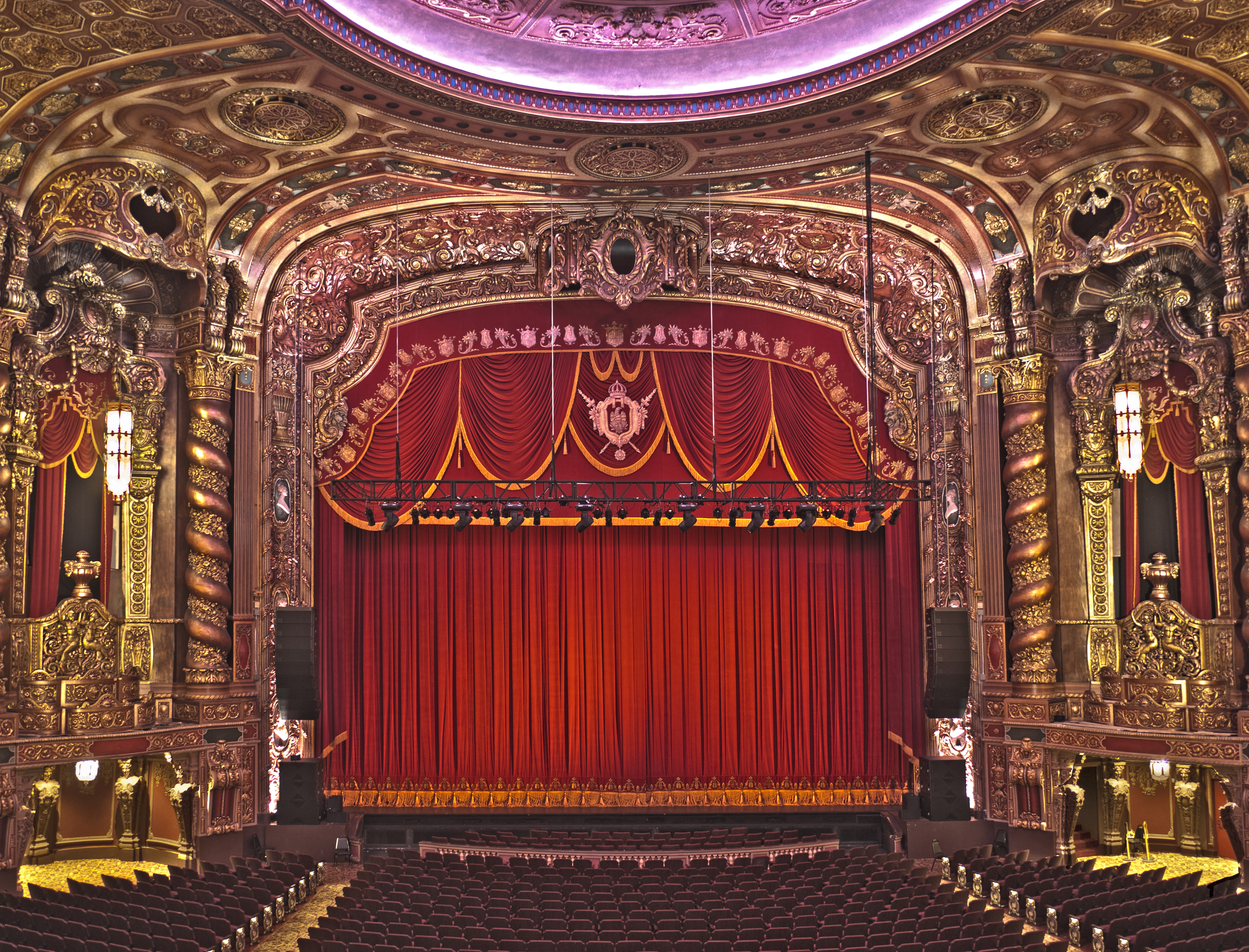 Site: kings theatre flatbush